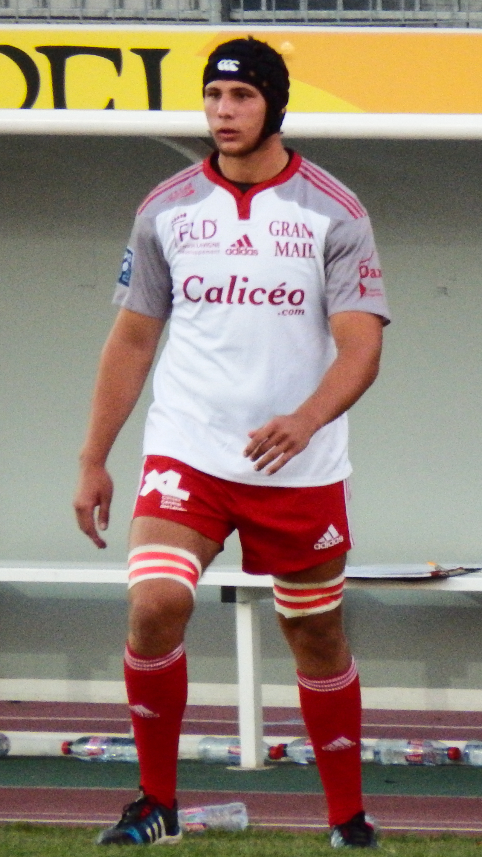 Pro D2 2014-2015 — 13 September 2014, Stadium municipal d'Albi. Match between: SC Albi — US Dax